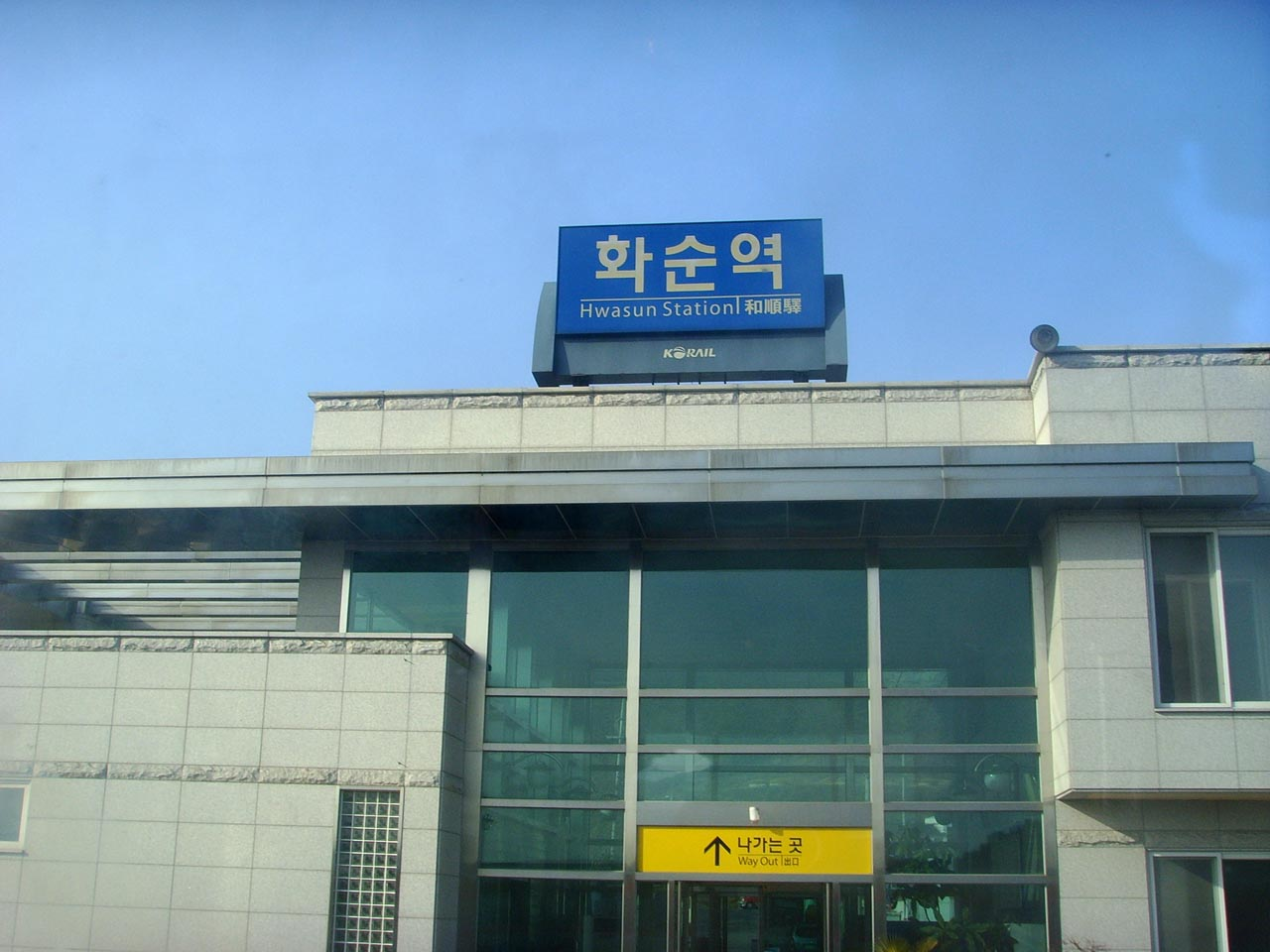 Hwasun Station (Gyeongjeon Line, Hwasun Line), Hwasun-eup, Hwasun-gun, Jeollanam-do